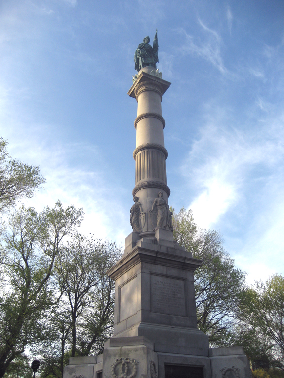 Soldiers and Sailiors Monument on Boston Common at Boston in the U.S. state of Massachusetts.